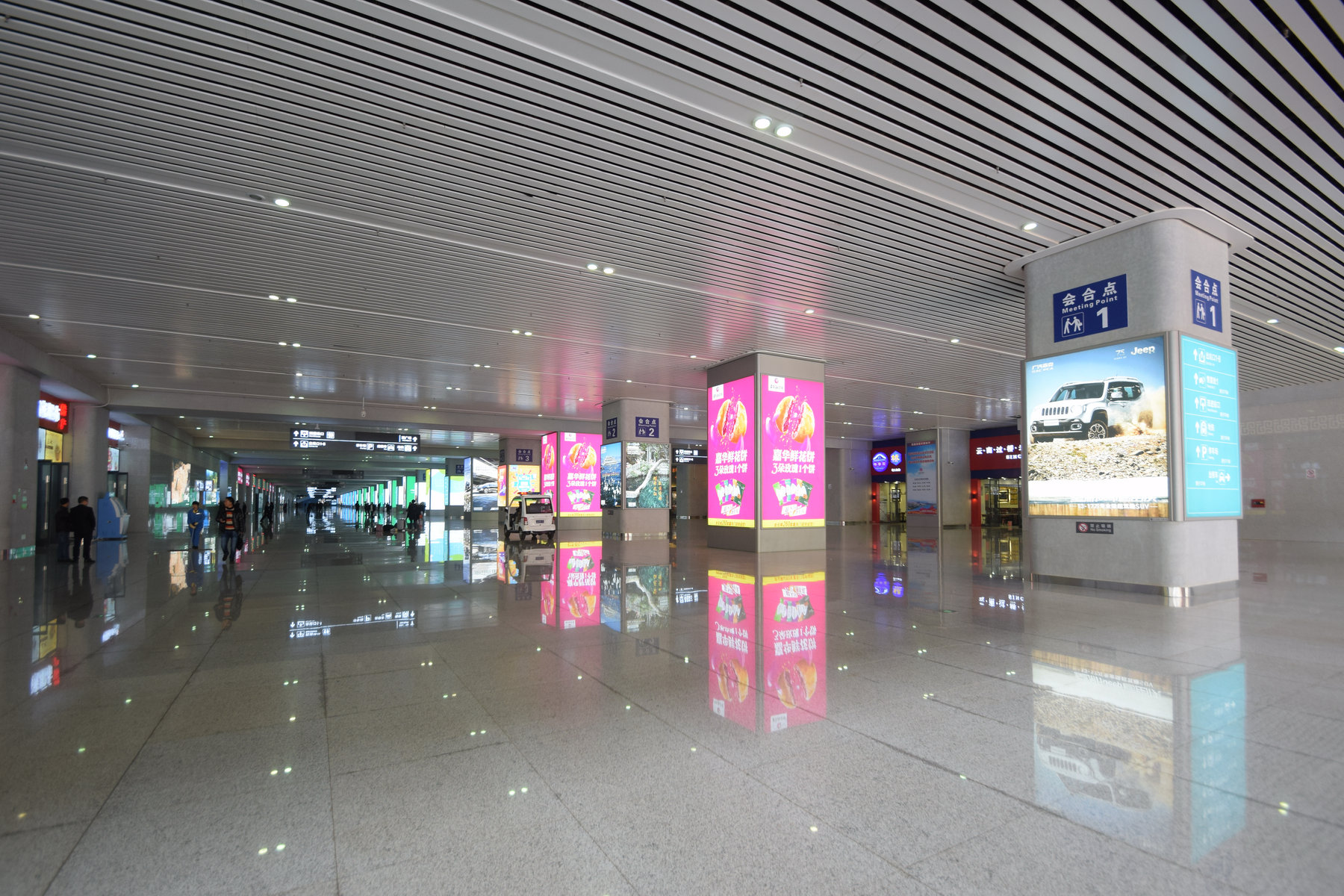 B1 Exit Corridor of Kunming Nan (South) Railway Station